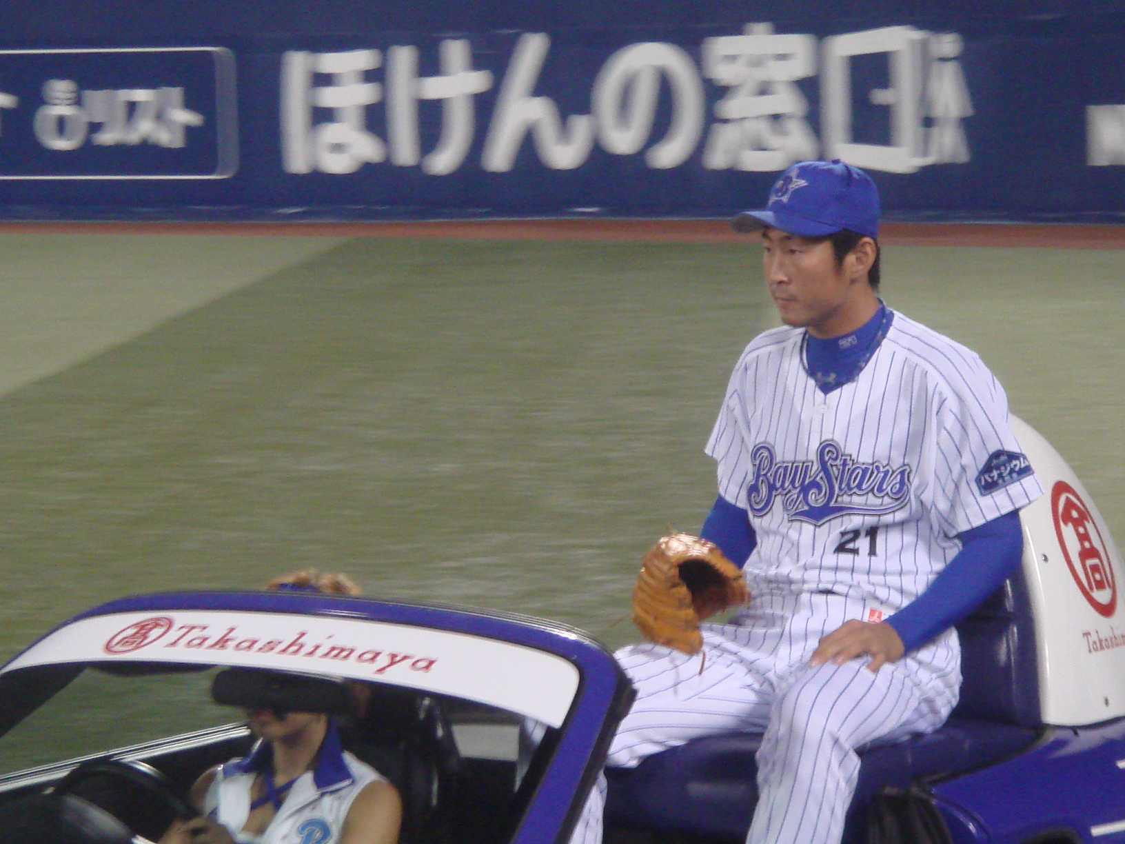 Yuji Yoshimi, pitcher of the Yokohama BayStars, at Yokohama Stadium.